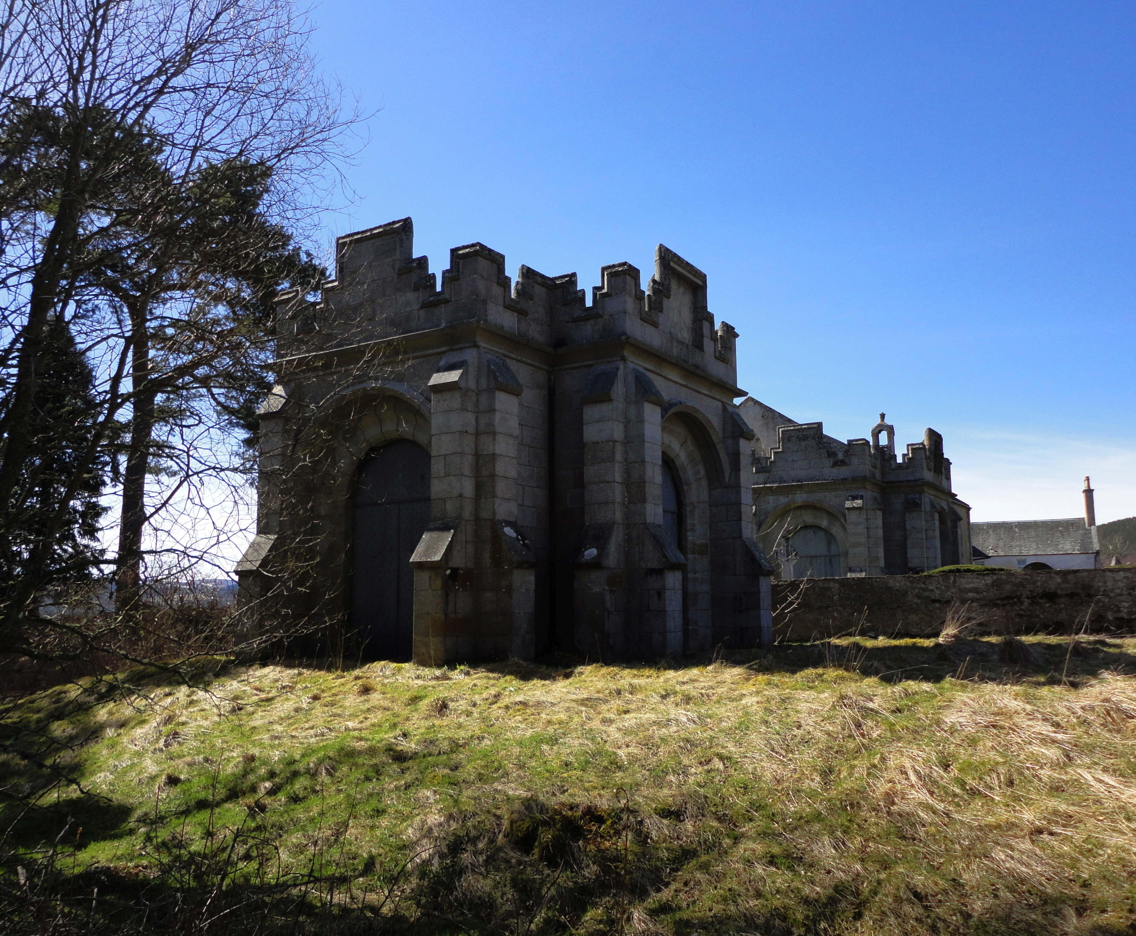 Duthil Old Parish Church and Churchyard - second mausoleum, located outside the walled churchyard